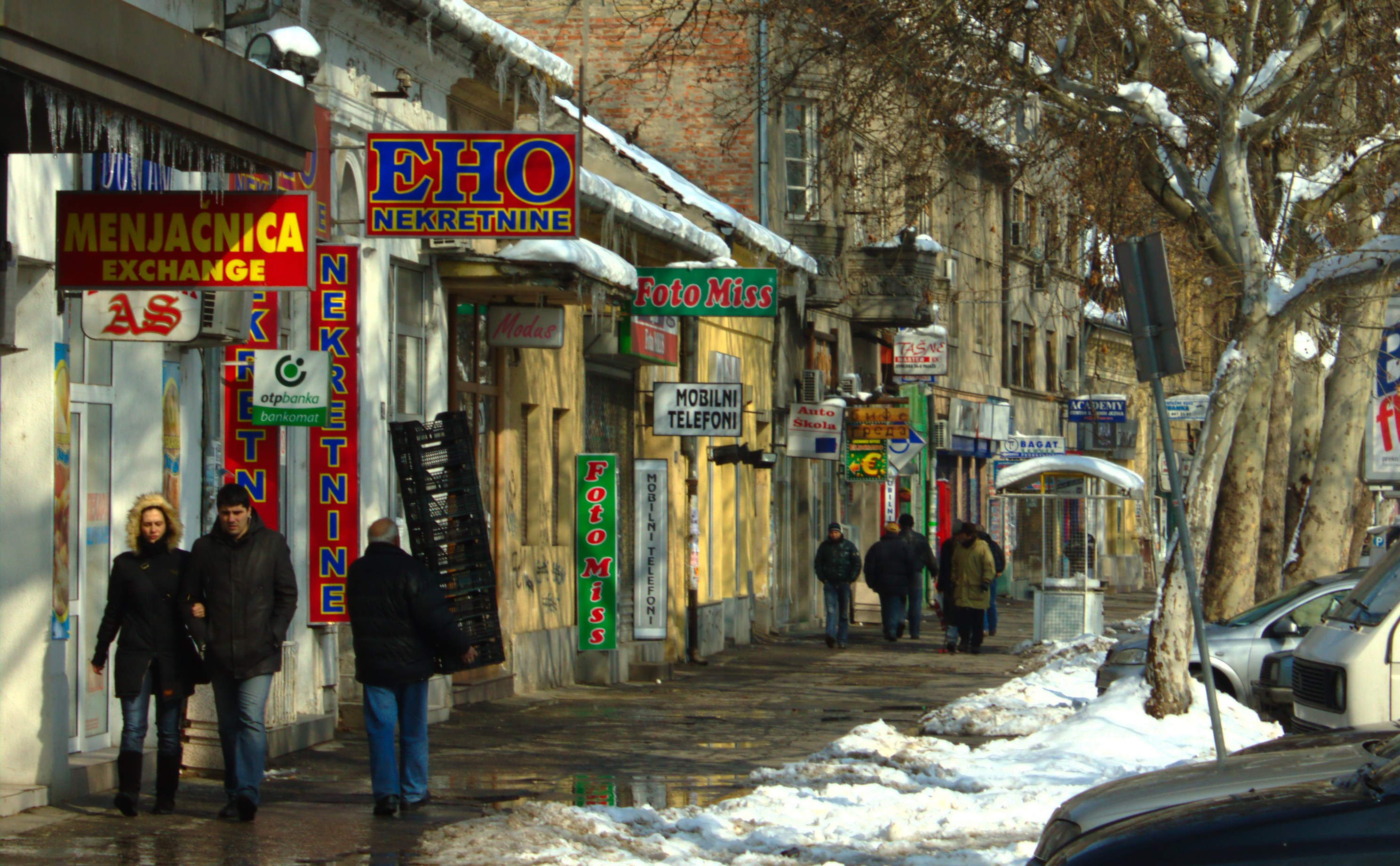 A street with shops - Jevrejska, Novi Sad